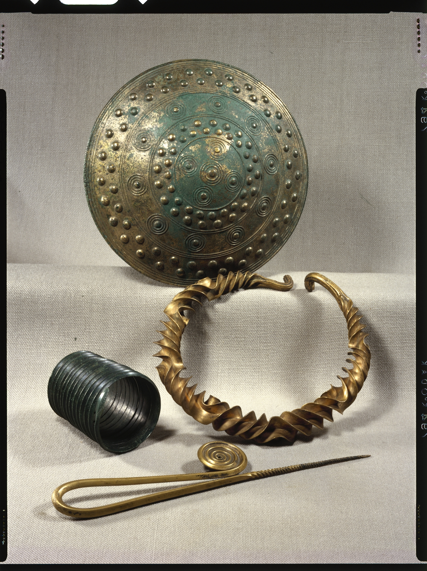 Øverst: Hængekar (B11645) fra Fårdal, depot/votiv, yngre bronzealder, Viskum sogn, Sønderlyng Herred, Viborg Amt. Herunder th: Wendelring (B4333) Røgerup Mose, depot/votiv, yngre bronzealder, Ferslev sogn, Horns Herred, Frederiksborg Amt Herunder tv: Spiral-armmanchet fra Grydstrup, depot/votiv, yngre bronzealder, Rynkeby sogn, Bjerge Herred, Odense Amt Nederst: Spiralnål fra Røgerup mose depot/votiv, yngre bronzealder, Ferslev sogn, Horns Herred, Frederiksborg Amt